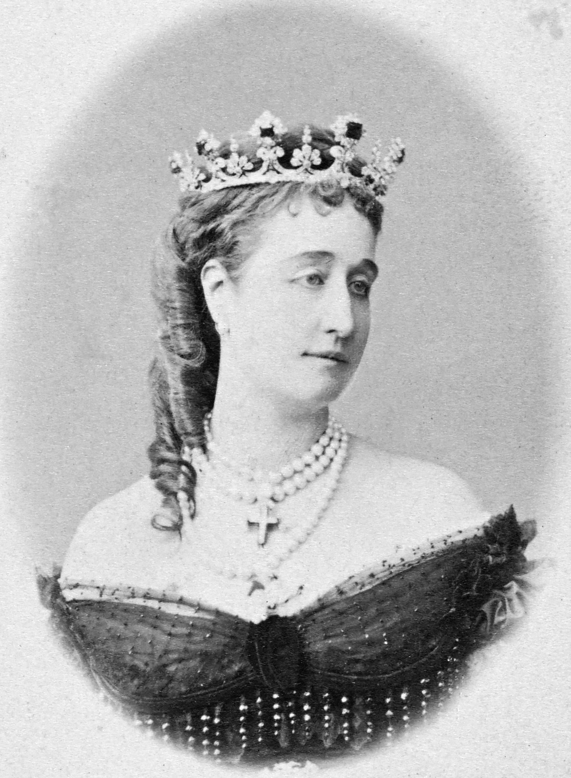 Eugénie de Montijo, Kejsarinna av Frankrike